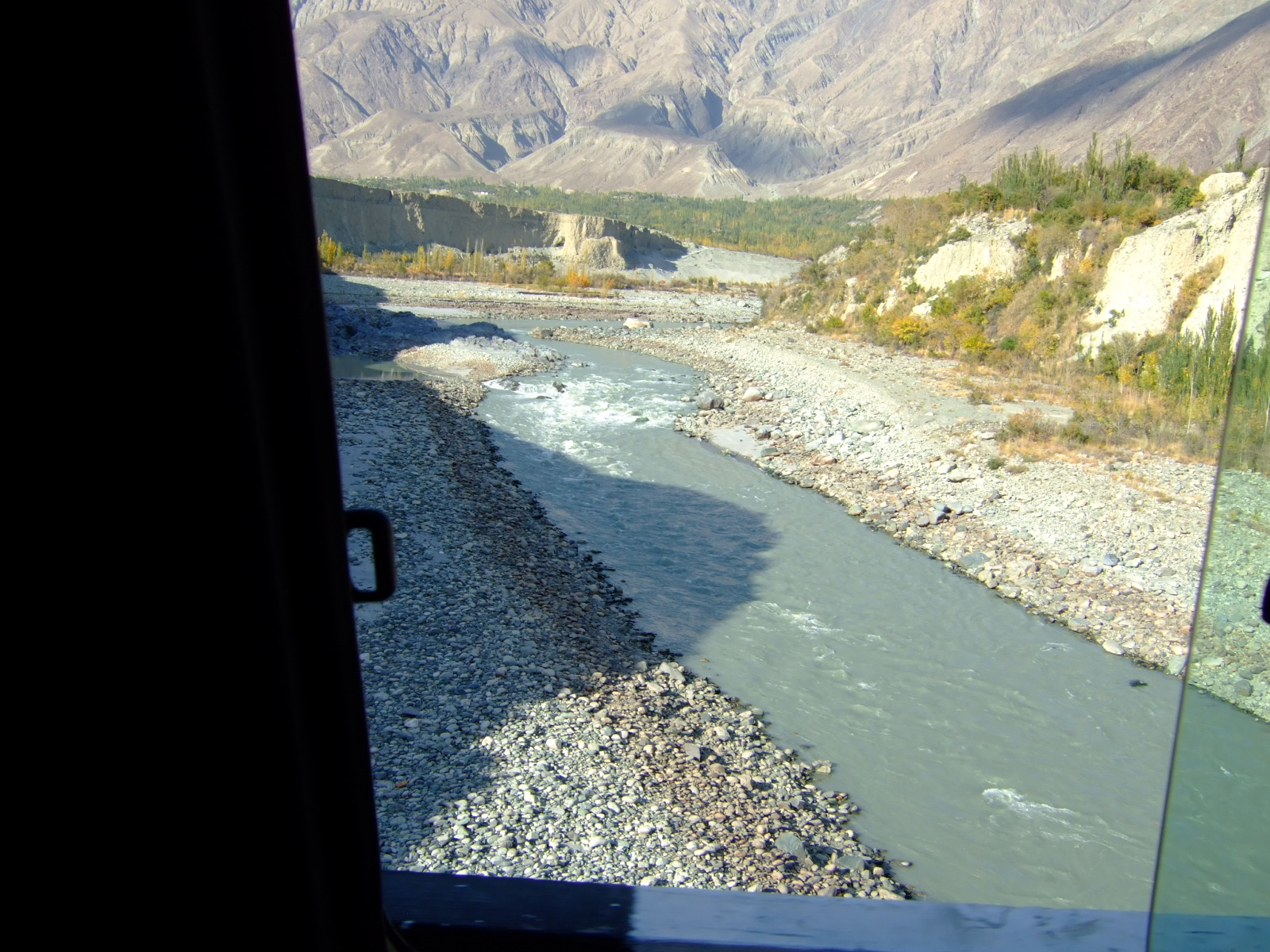 Picture of Hunza river from Danyor tunnel bridge